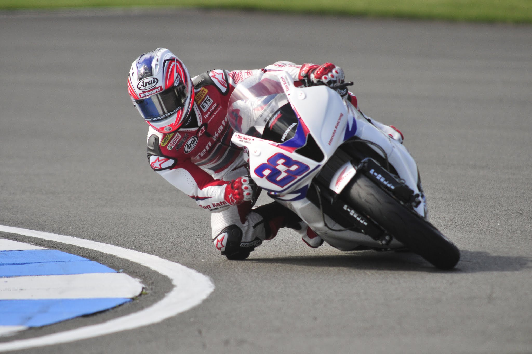 Broc Parkes 2012 World Supersport Donington Park